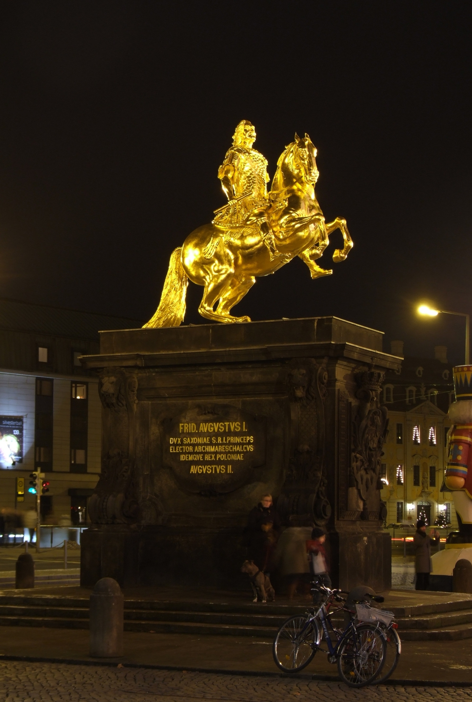 Statue of Augustus II the Strong in Dresden